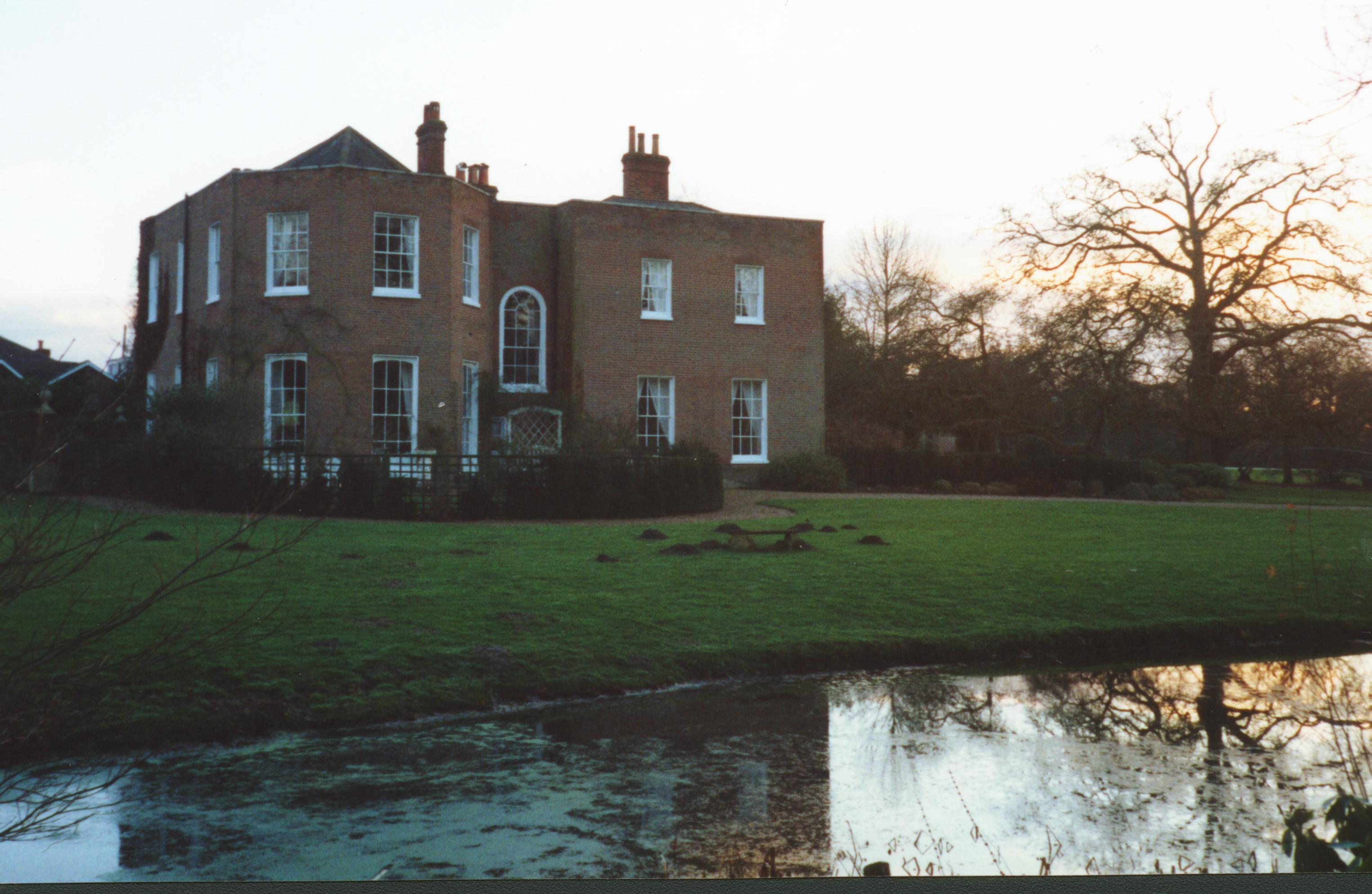 A picture taken of Barkham Manor, Barkham, Berkshire, England in December 1992. Summary A picture taken of Barkham Manor, Barkham, Berkshire, England in December 1992.